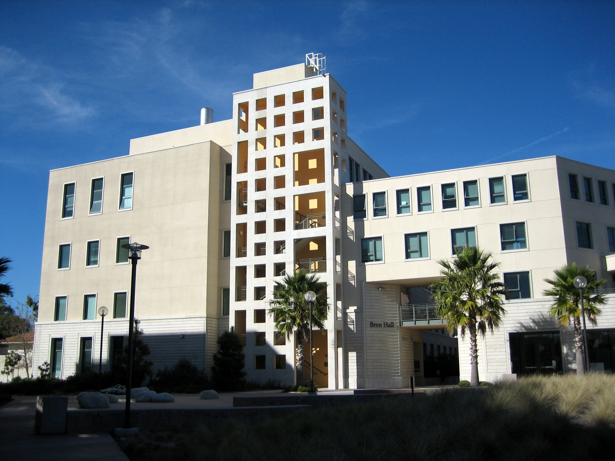 Bren Hall, home of Bren School of Environmental Science and Management, UCSB